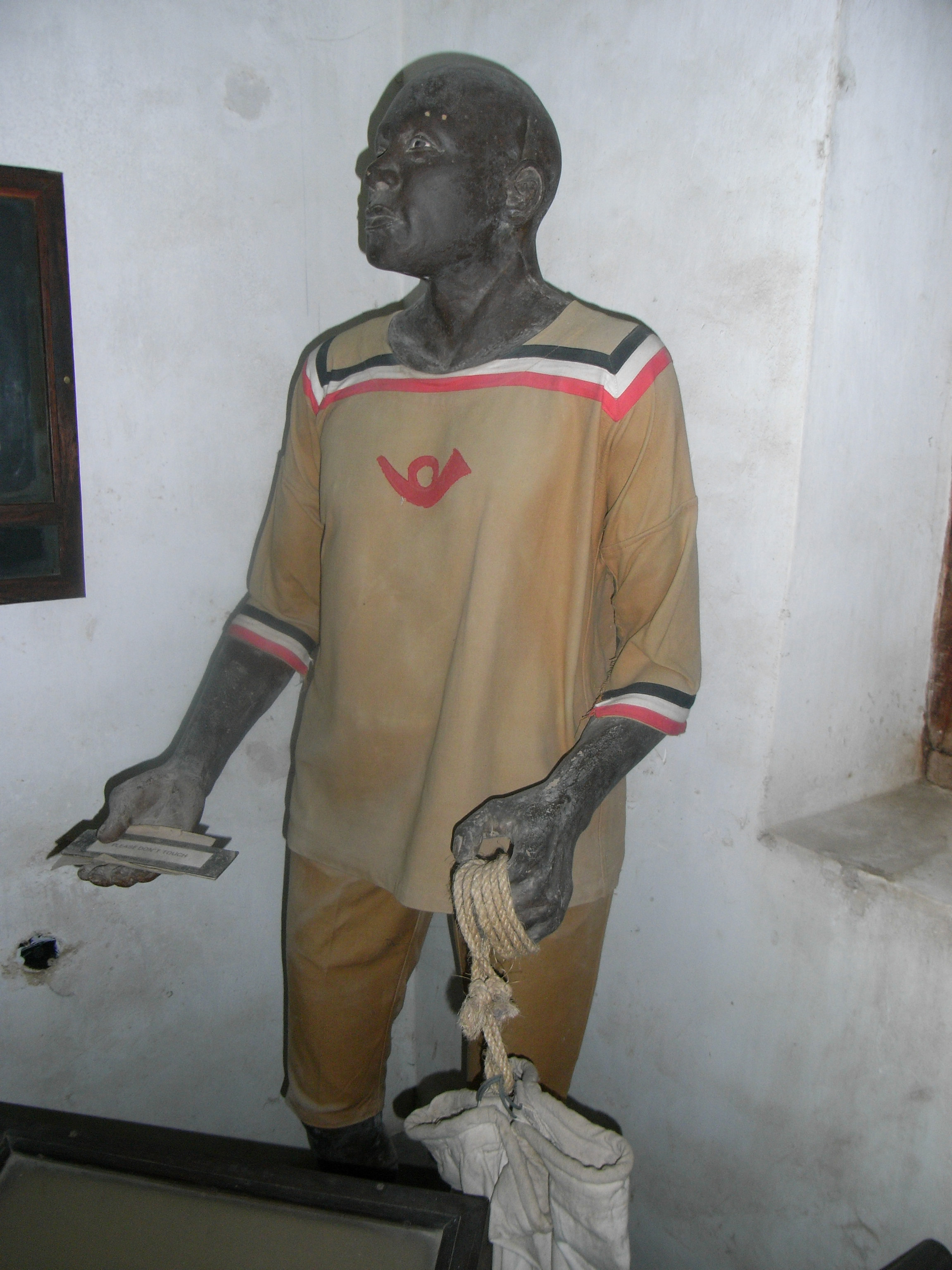 German Reichspost, colonial servant's dress around 1890, seen in German Post Office Museum in Lamu, Kenya